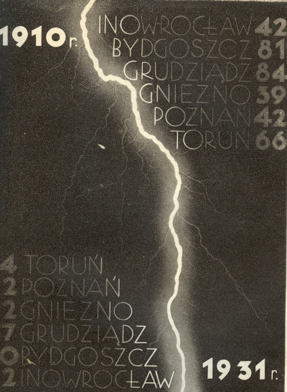 Percentage of Germans in the population of several cities: Toruń (Thorn), Grudziądz (Graudenz), Inowrocław (Inowrazlaw), Bydgoszcz (Bromberg), Gniezno, Poznań that shrank from 1910 to single digit minority in 1931, as a result of the return of the cities to free Poland by the Treaty of Versailles.